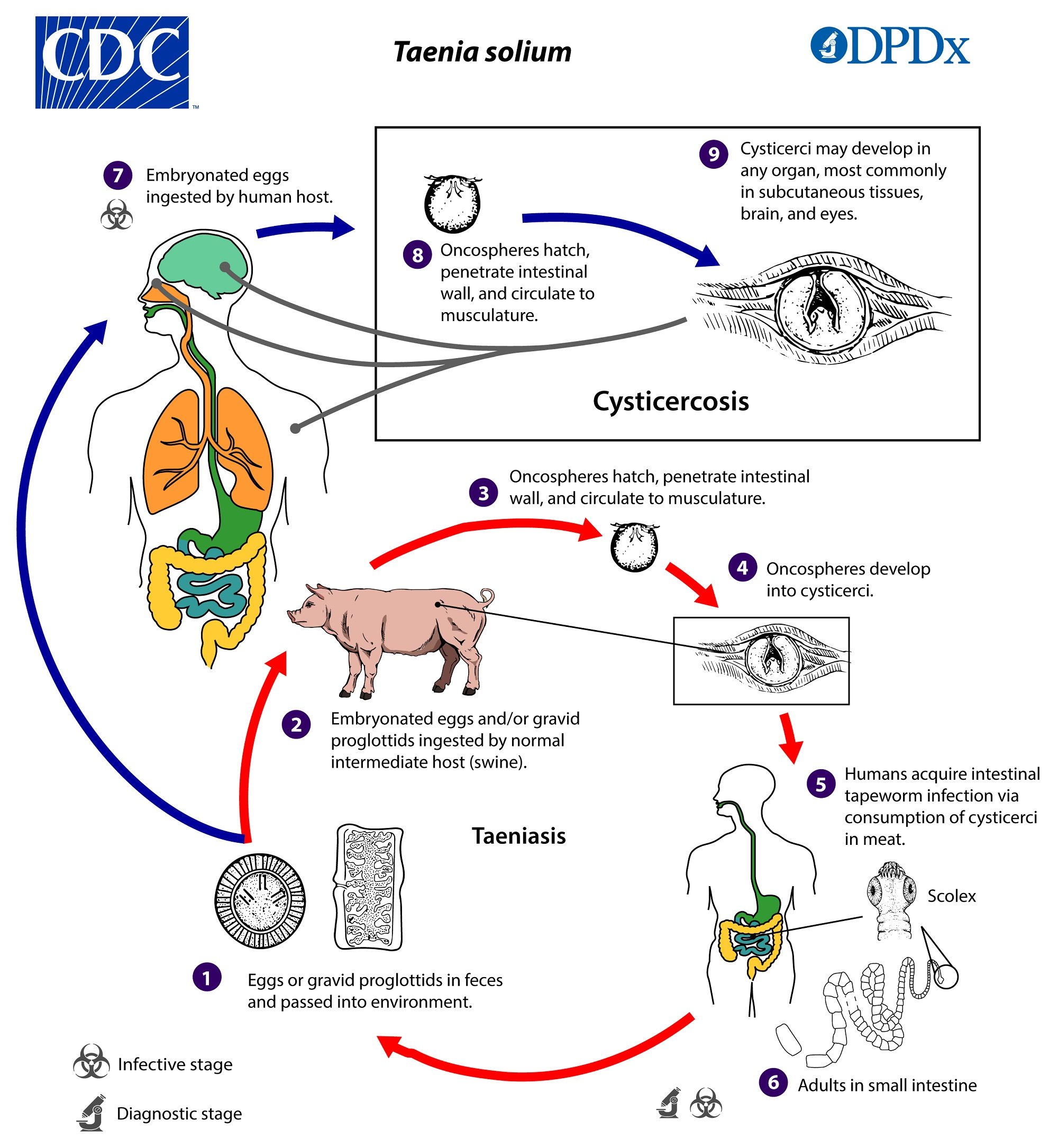 This is an illustration of the life cycle of Taenia solium, the causal agent of cysticercosis.